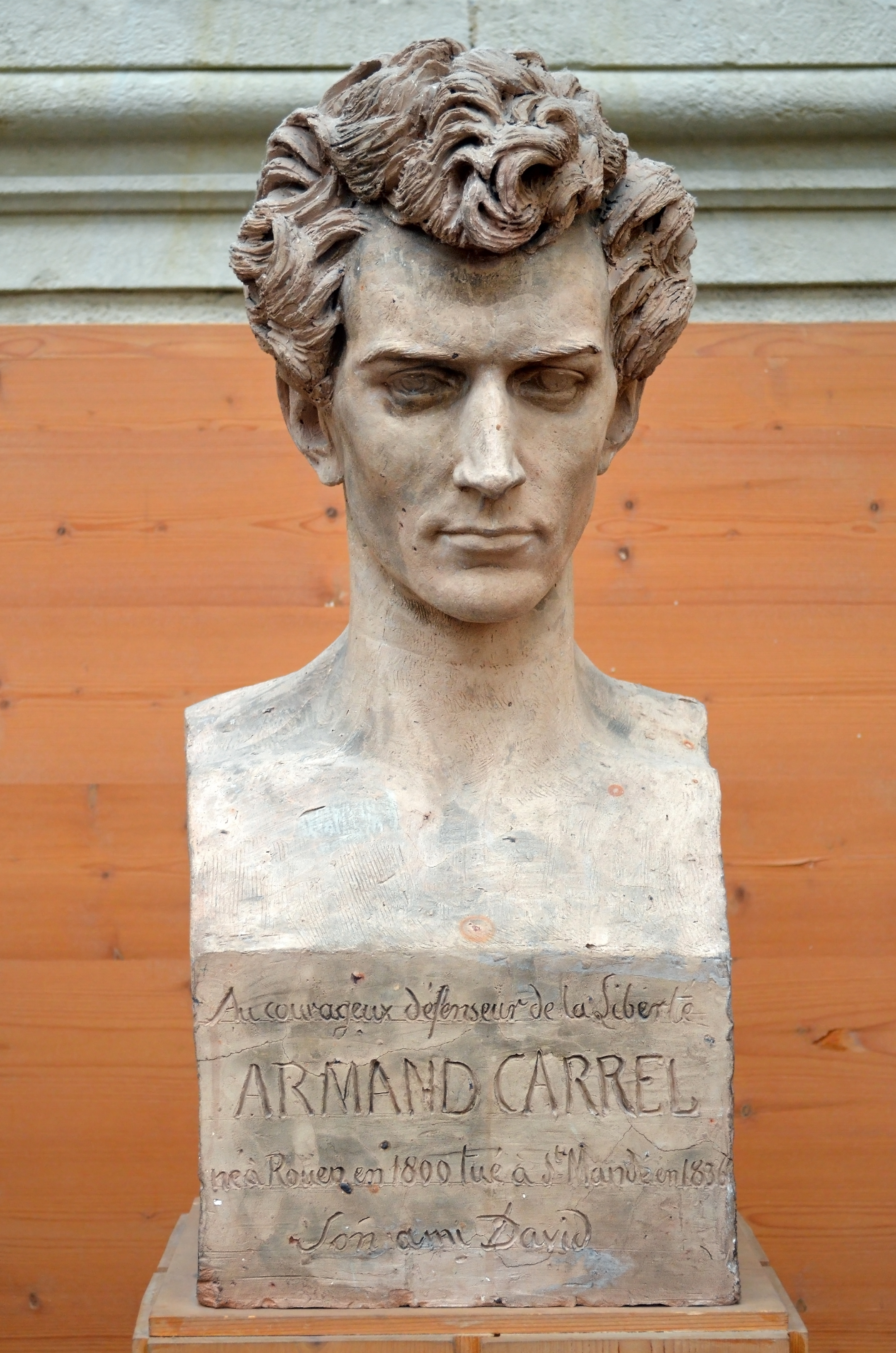 Bust of Armand Carrel by french sculptor David d'Angers (1838). Exhibited in David d'Angers gallery, Angers, France